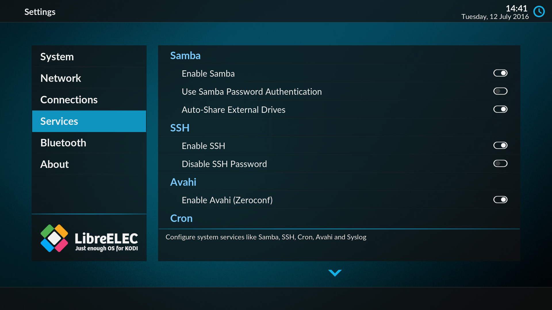 Screenshot of the LibreELEC KODI plugin